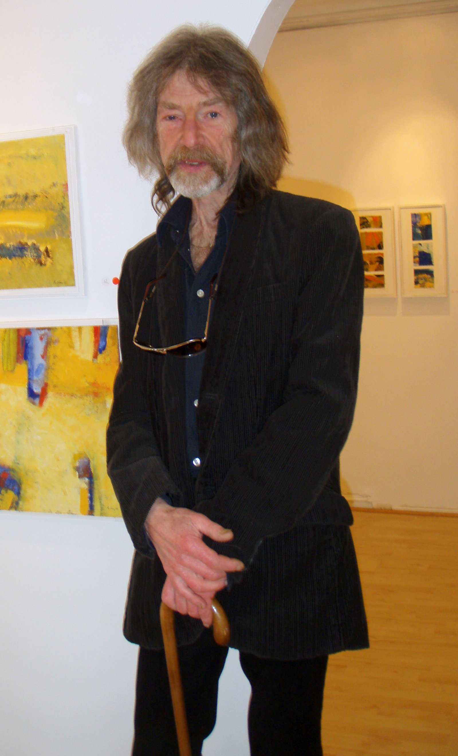 Pic of Norwegian painter Ragnar Sten Born in 1843 at his exhibition in a Bergen-gallery, fall -07. (With his consent)